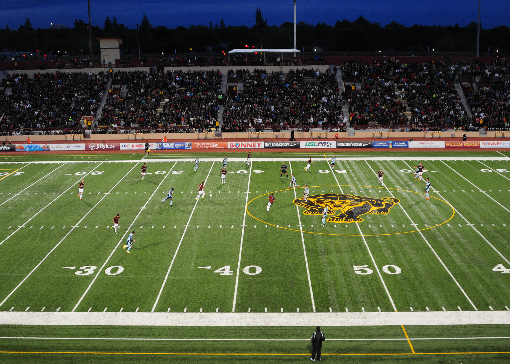 Depicted place: Charles C. Hughes Stadium